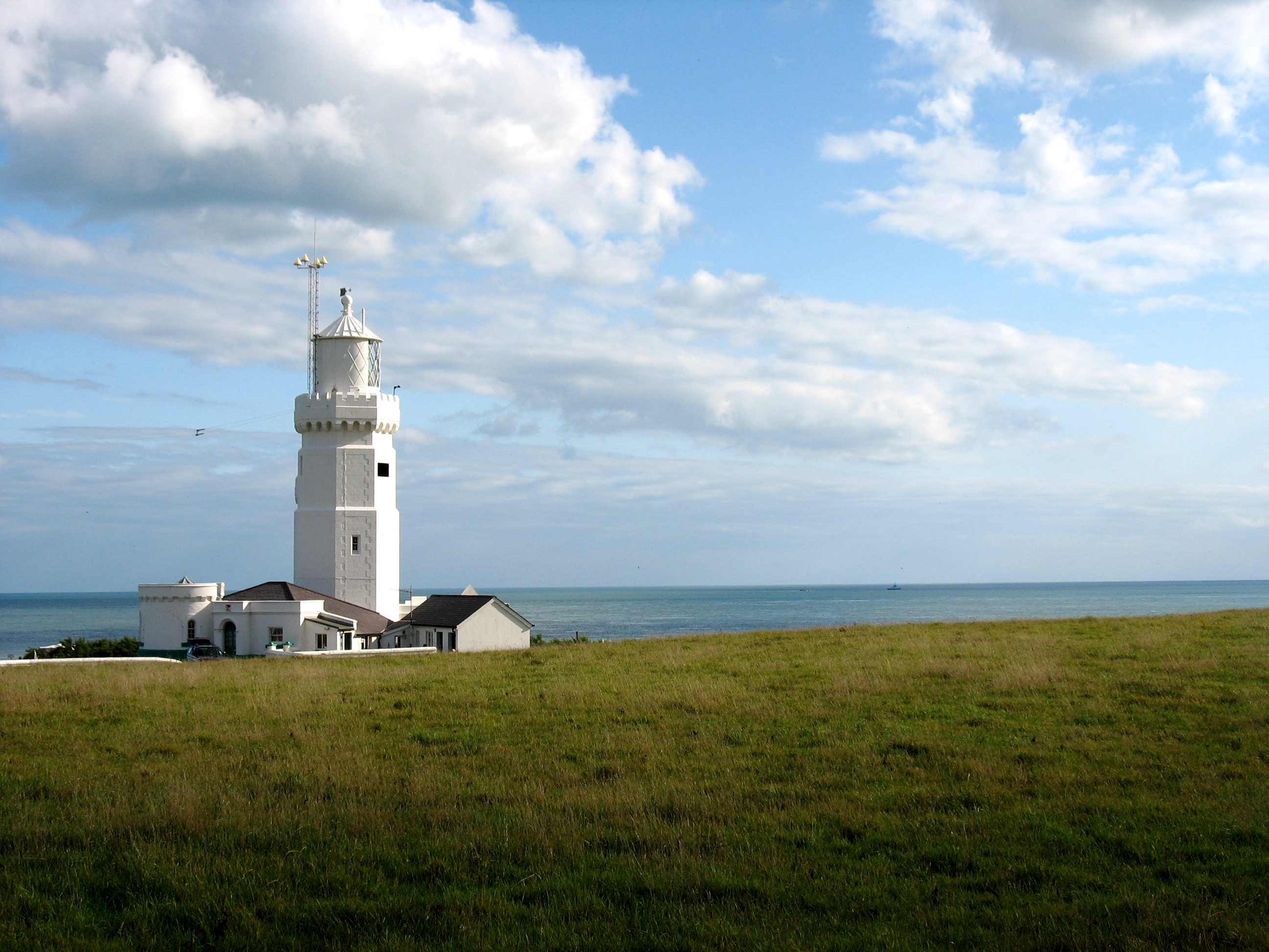 St Catherine's Lighthouse 2010